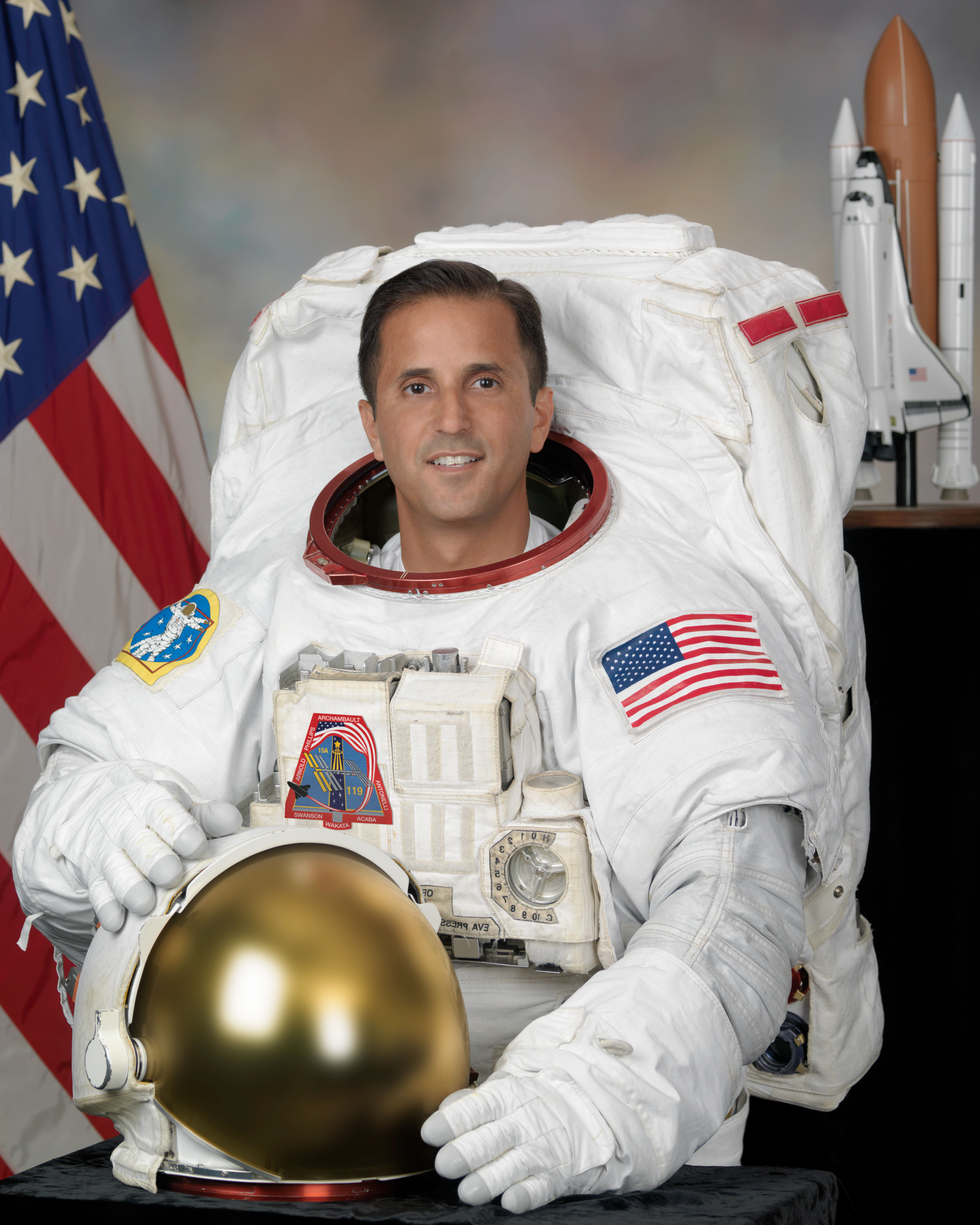 Astronaut Joseph Acaba, mission specialist